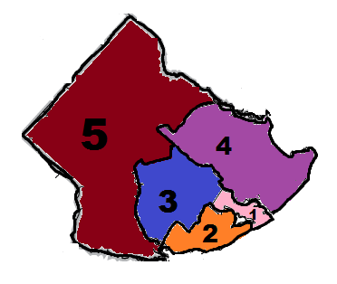 Atlantic county districts for the board of chosen freeholders.